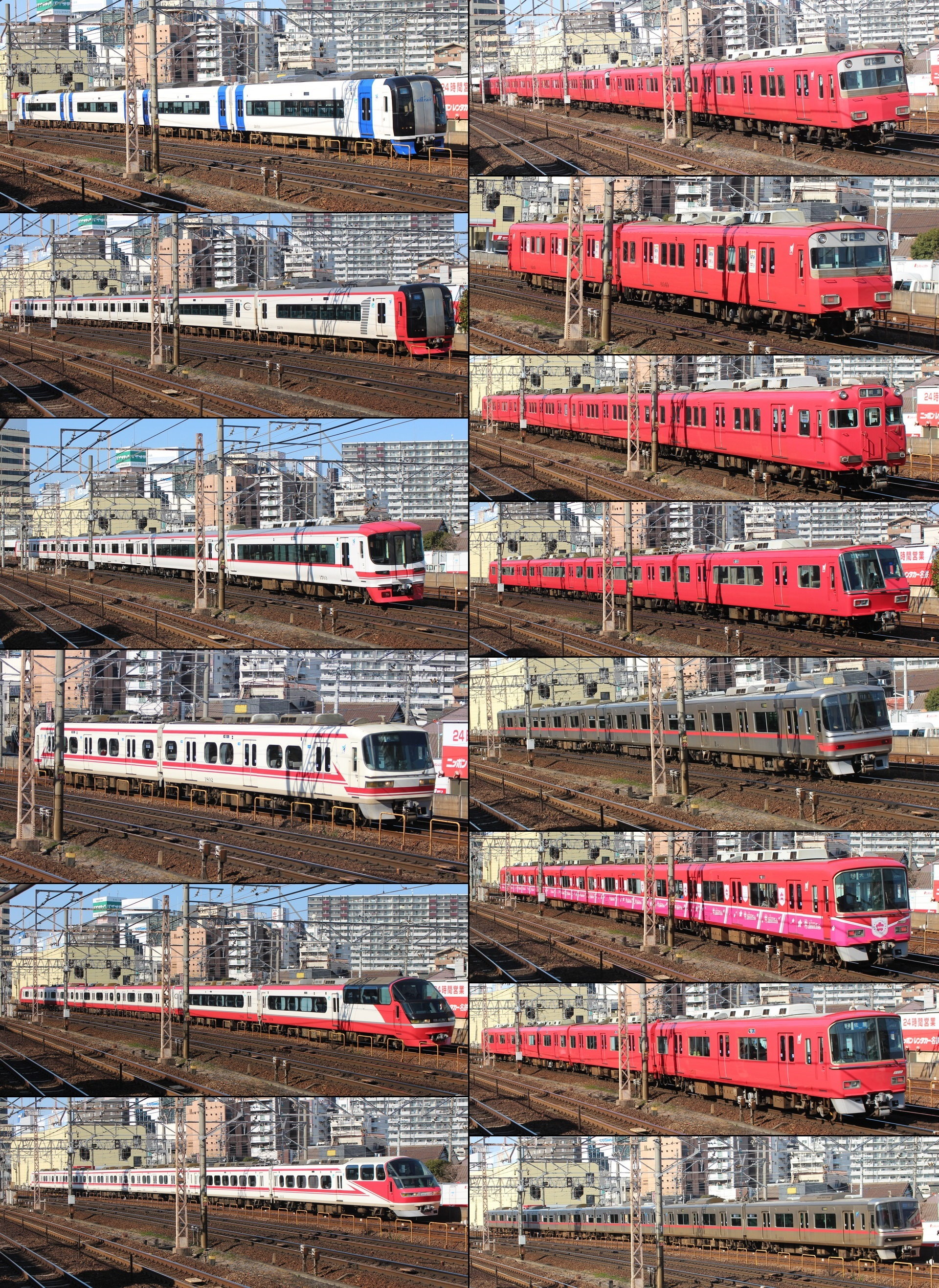 Montages of Meitetsu trains in Atsuta-ku, Nagoya, Aichi prefecture, Japan.